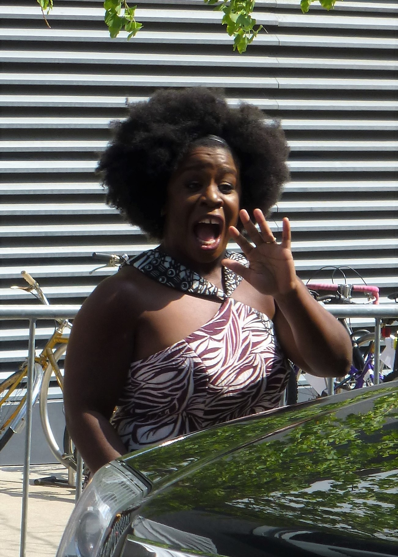 Uzo Aduba at the press conference of American Pastoral, 2016 Toronto Film Festival